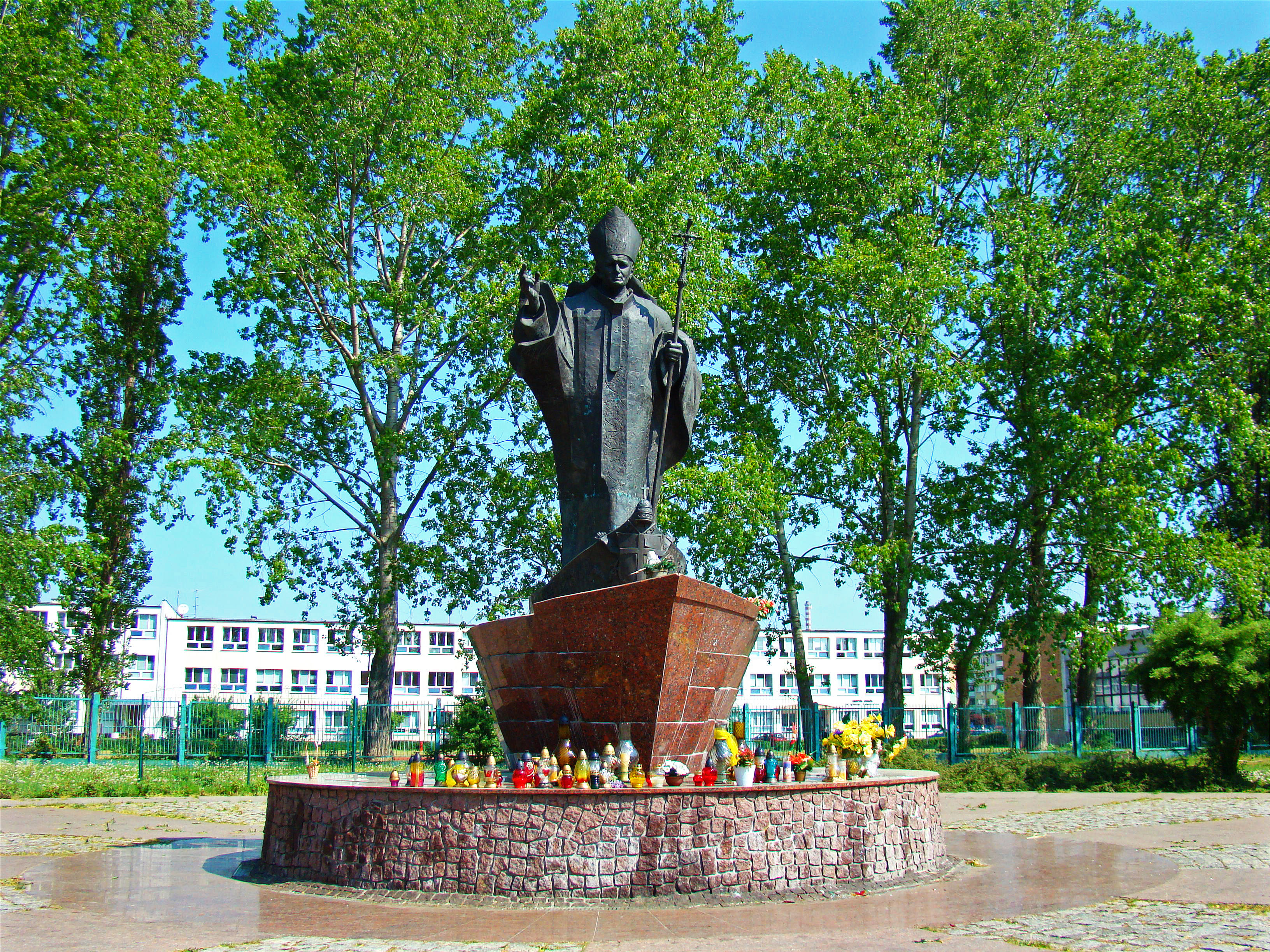 Ioannes Paulus II monument, Police, Poland